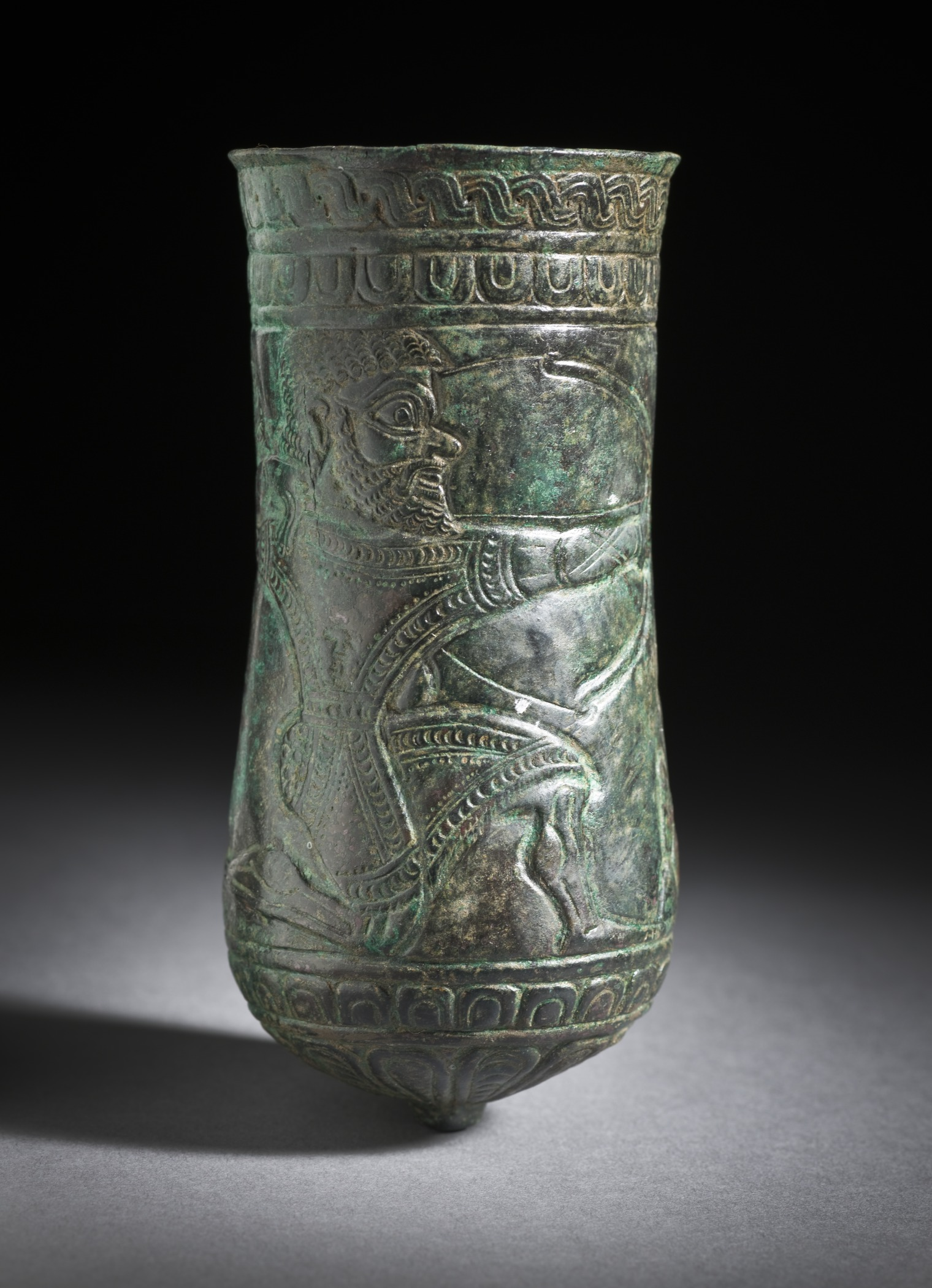 Iran, circa 1000-800 B.C. Furnishings; Serviceware Bronze Height: 4 1/4 in. (11.1 cm); Diameter: 2 in. (5 cm) The Nasli M. Heeramaneck Collection of Ancient Near Eastern and Central Asian Art, gift of The Ahmanson Foundation (M.76.97.357) Art of the Ancient Near East Currently on public view: Hammer Building, floor 3